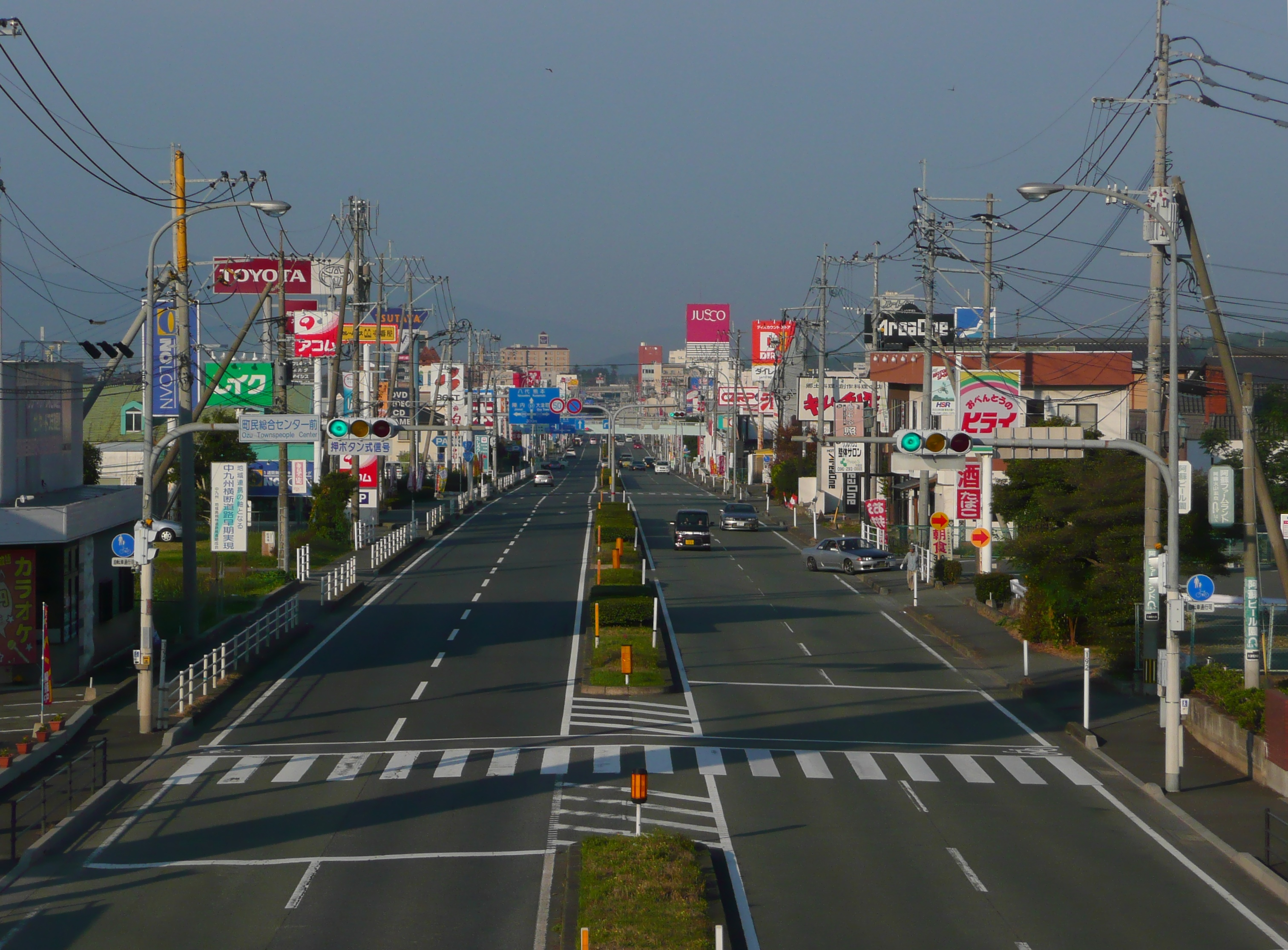 National Route 57 (Ozu Town, Kumamoto, Japan)